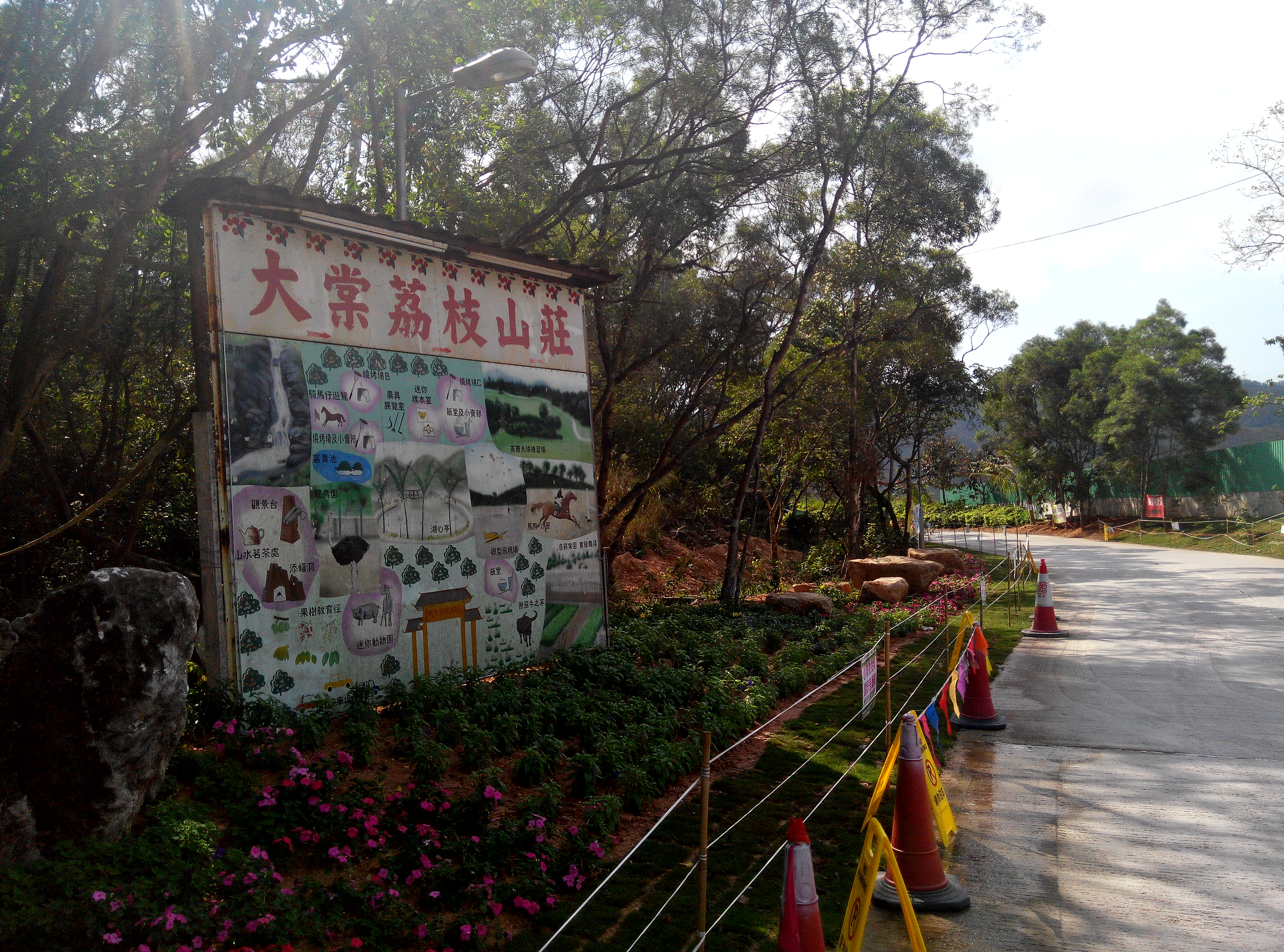 Tai Tong Lychee Garden